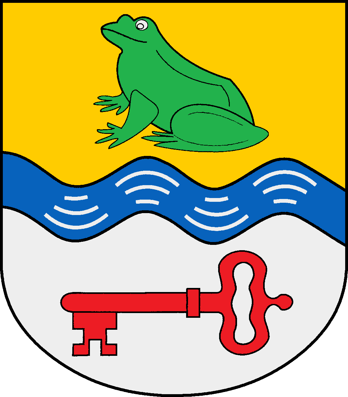 Coat of arms of the municipality Sahms in Schleswig-Holstein, Germany.